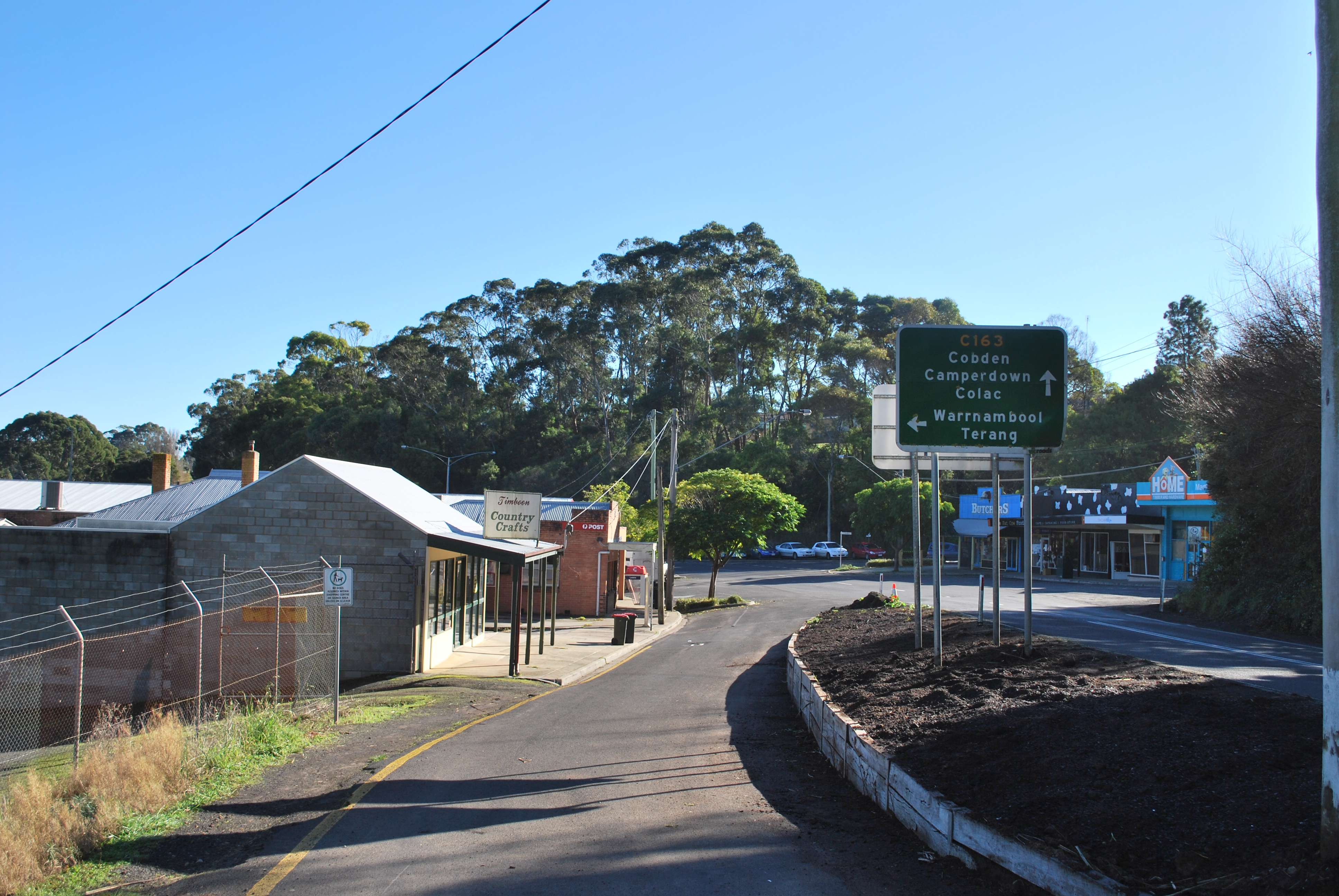 Shops in Timboon, Victoria